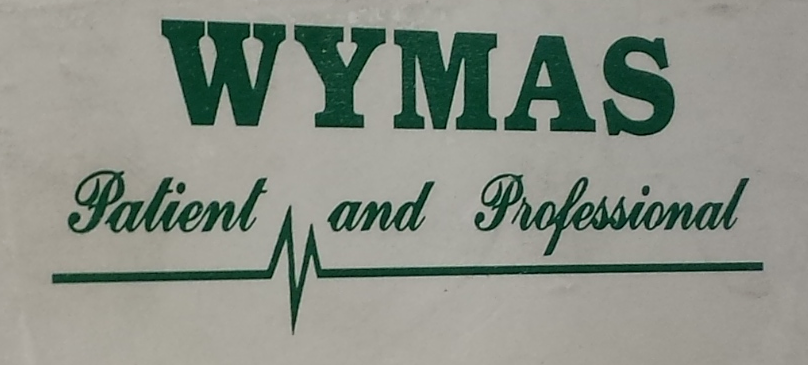 West Yorkshire Metropolitan Ambulance Service logo found inside a former WYMAS ambulance vehicle, now part of the National Emergency Services Museum, Sheffield.